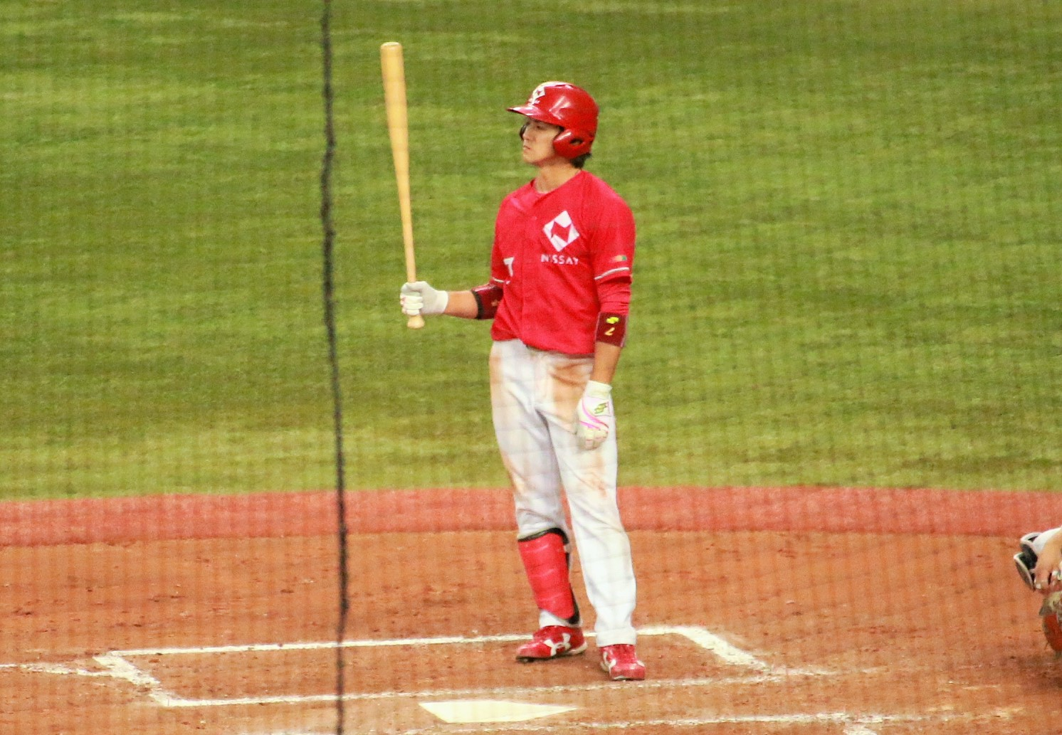 Yuya Oda, outfielder of the Nippon Life Insurance Company Baseball Club, at Osaka Dome.